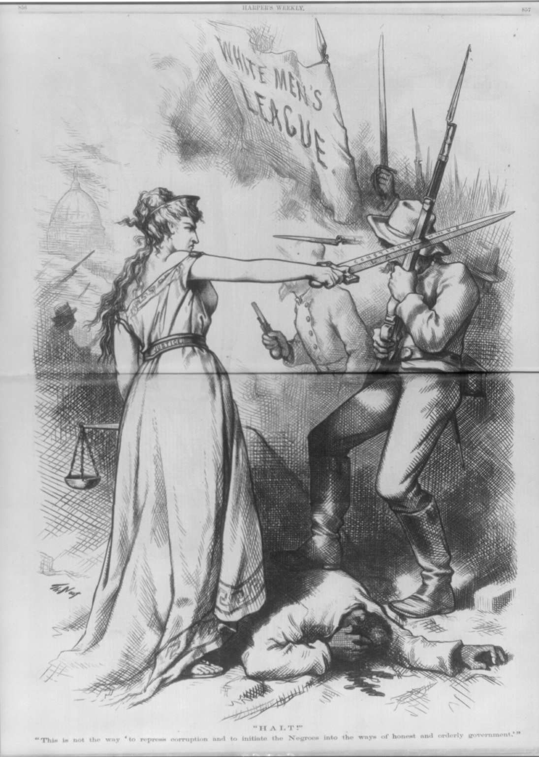 Title: "Halt!" "This is not the way 'to repress corruption and to initiate the Negroes into the ways of honest and orderly government.'" / Th. Nast. Abstract/medium: 1 print : wood engraving.